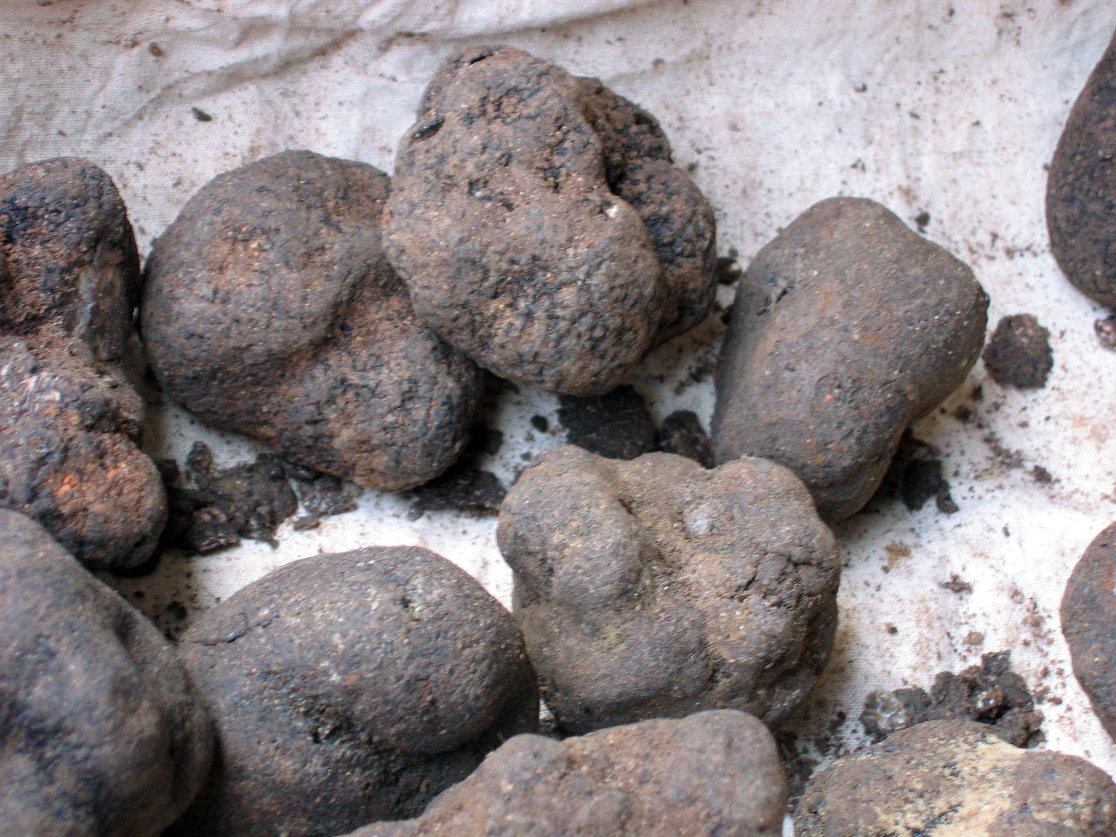 Photo taken by Poppy in January 2006. Truffle from Mont-Ventoux.